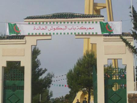 Sign says "Battle of Bab El Bekkouche The Immortal" in the place were the battle took.